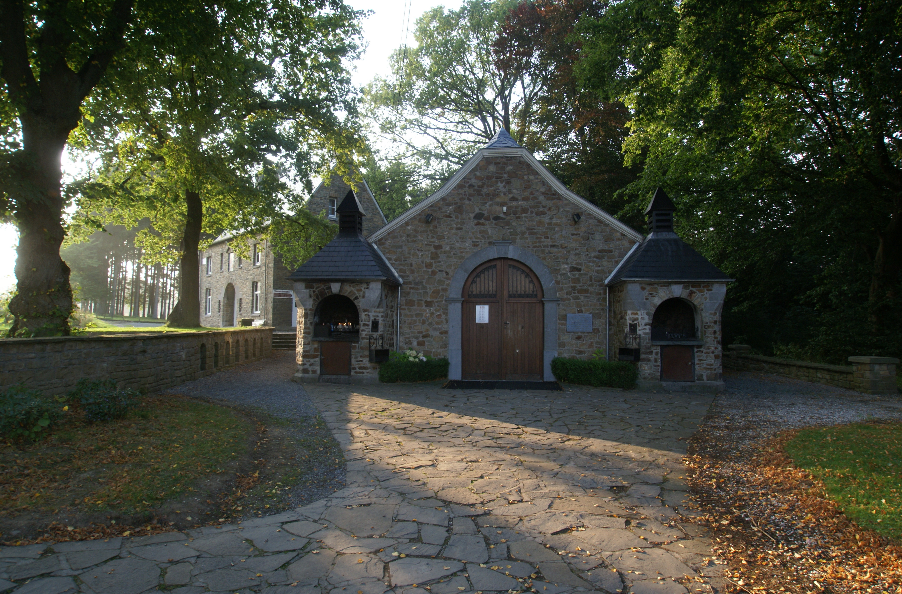 Tancrémont (Belgium):Catholic “Good Old God Chapel”